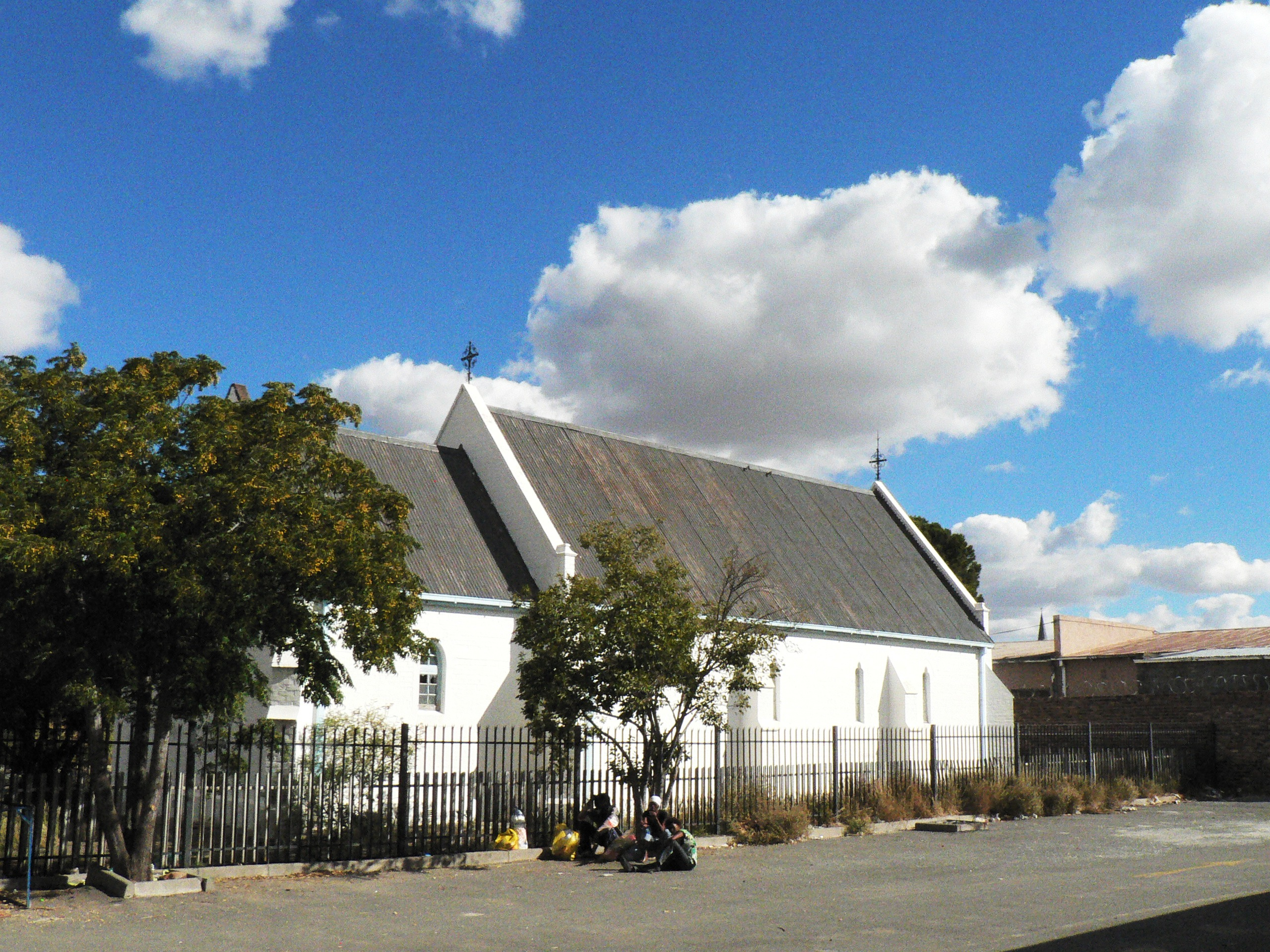 This media shows a South African Protected Site with SAHRA file reference 9/2/025/0004.